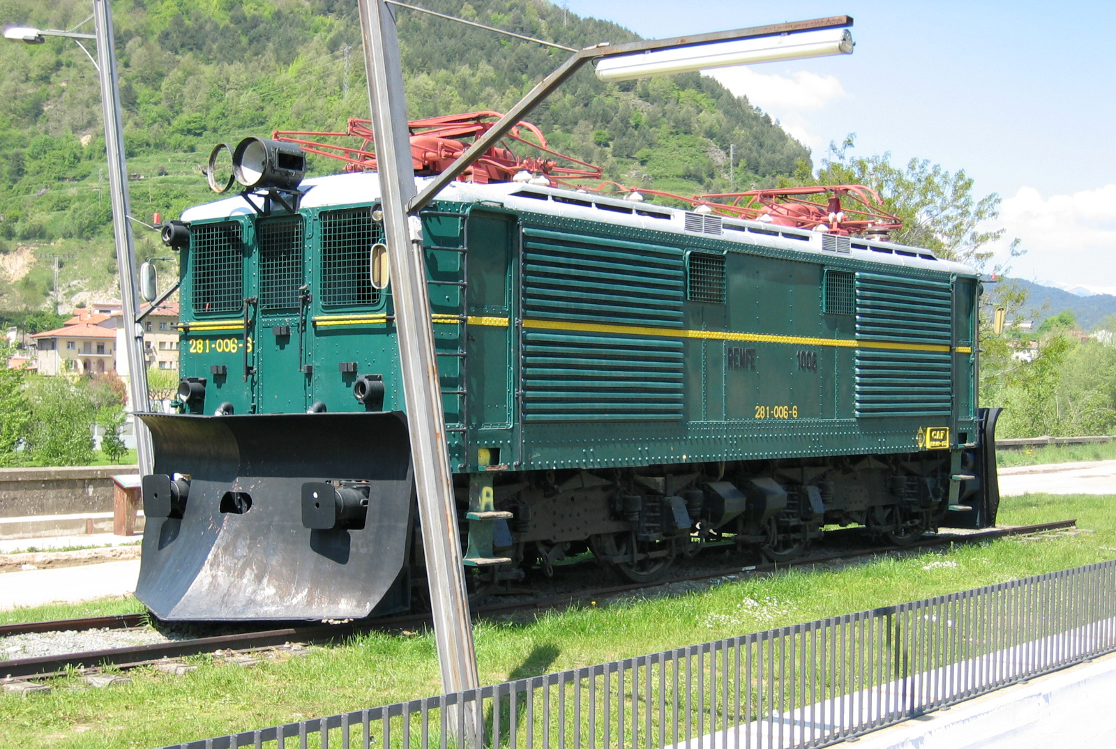 Electric locomotive 1006 series exposed at Ripoll (Girona) station